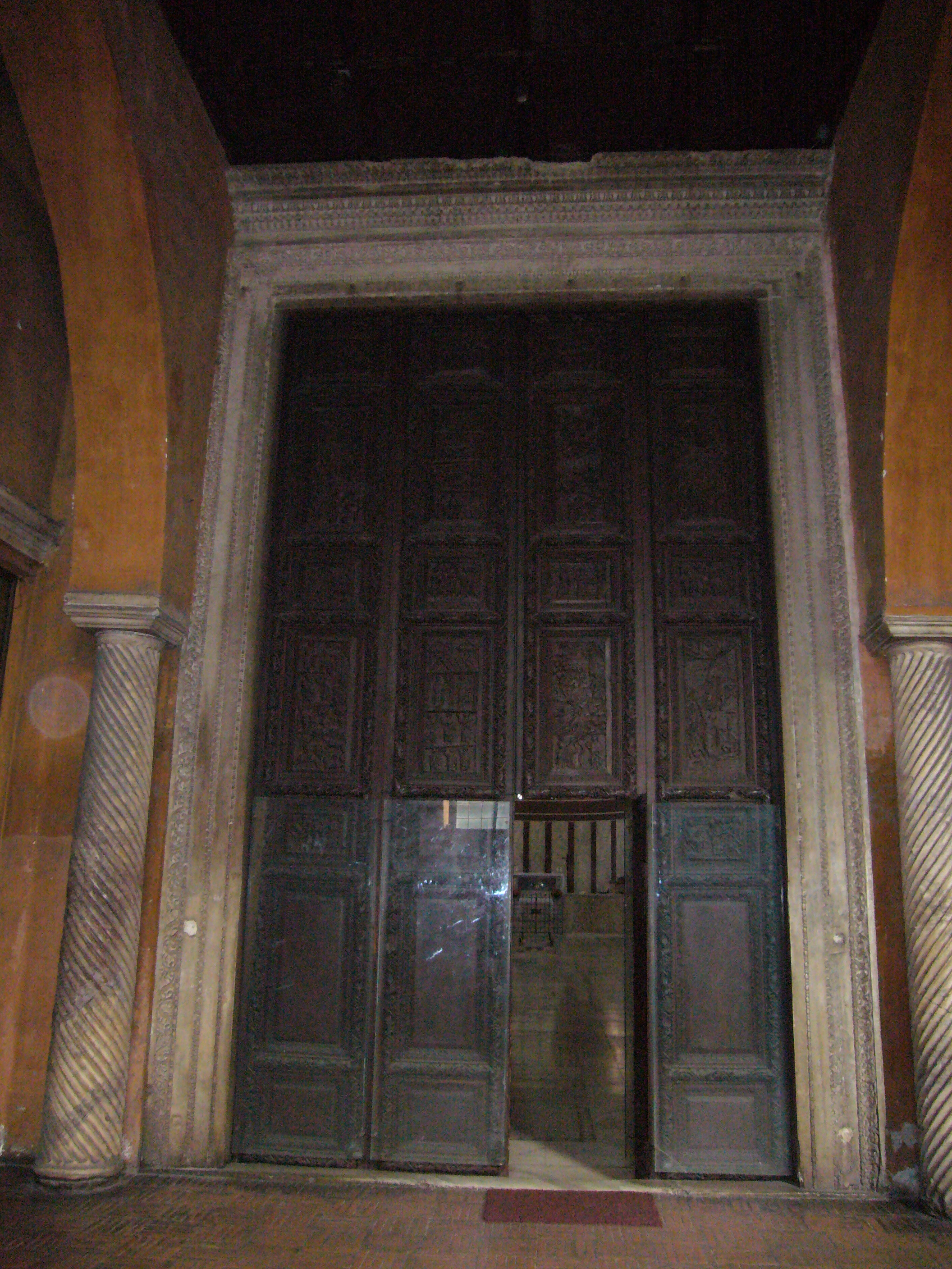 Rome, basilica of Santa Sabina all'Aventino. The carved portal, dating back from the 6th century.